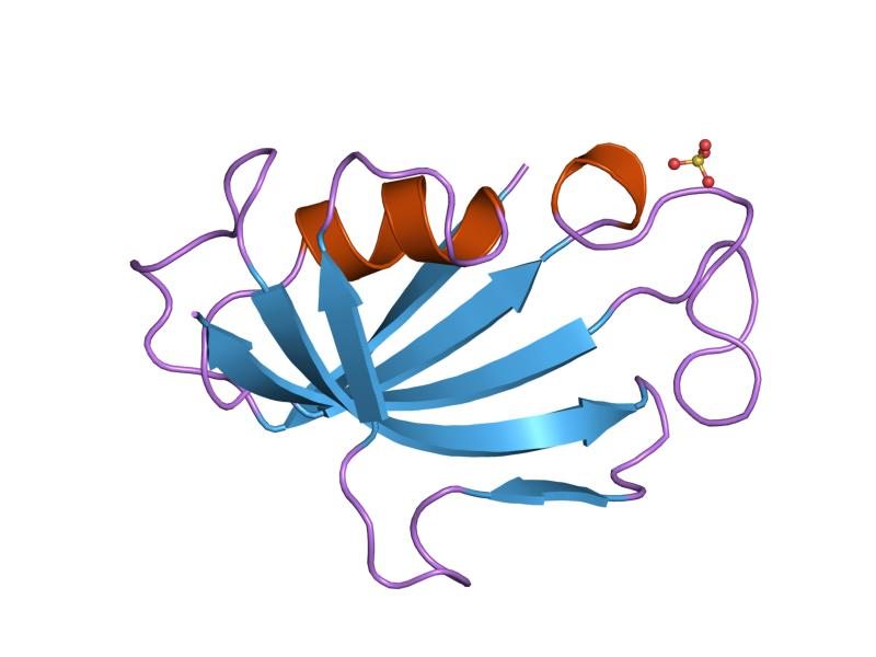 Cartoon representation of the molecular structure of protein registered with 1fkk code.